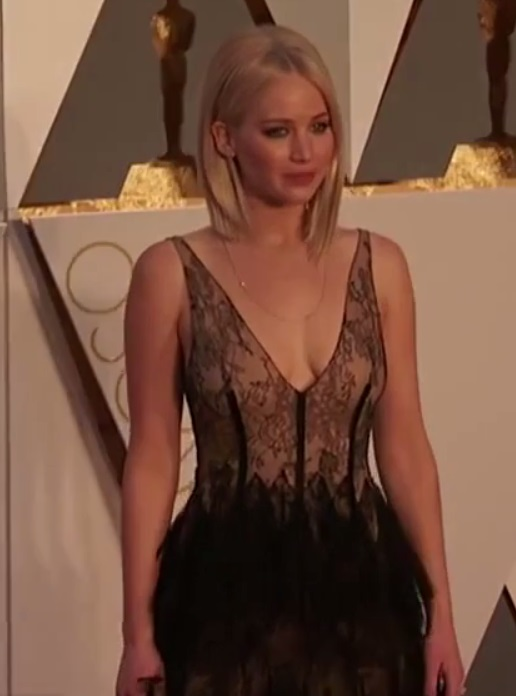 Jennifer Lawrence at 2016 Oscars Red Carpet